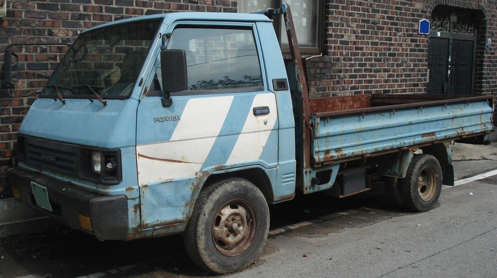 Hyundai Porter